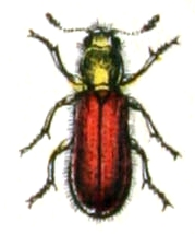 Psoa viennensis, from Calwer's Käferbuch, Table 29, Picture 16. Taxonomy was updated to 2008, using mostly the sites Fauna Europaea and BioLib. Please contact Sarefo if the determination is wrong!